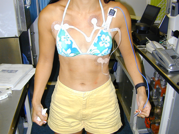 Electrode placement for the Physiological Monitoring experiment is shown in this photo on NEEMO 5 Aquanaut Emma Hwang.